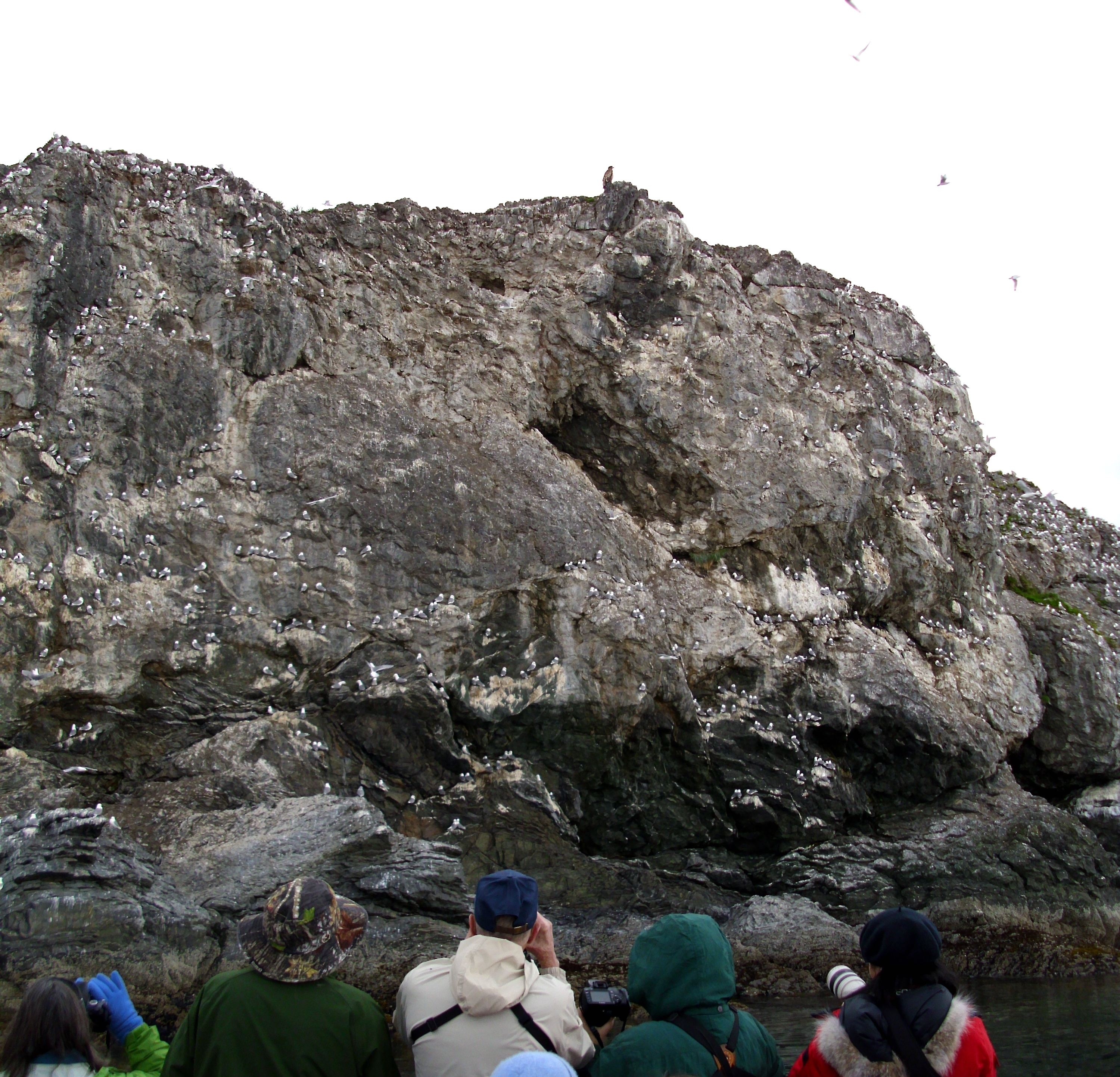 Juvenile Bald Eagle hunting at Gull Island bird rookery, Kachemak Bay, Alaska. Birdwatchers on board a boat visible in foreground